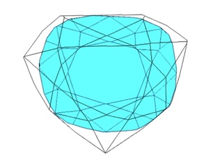 Model of the "French Blue Diamond" of the French Crown Jewels, compared to later recutting as the "Hope Diamond" now in the Smithsonian, Washington, D.C.